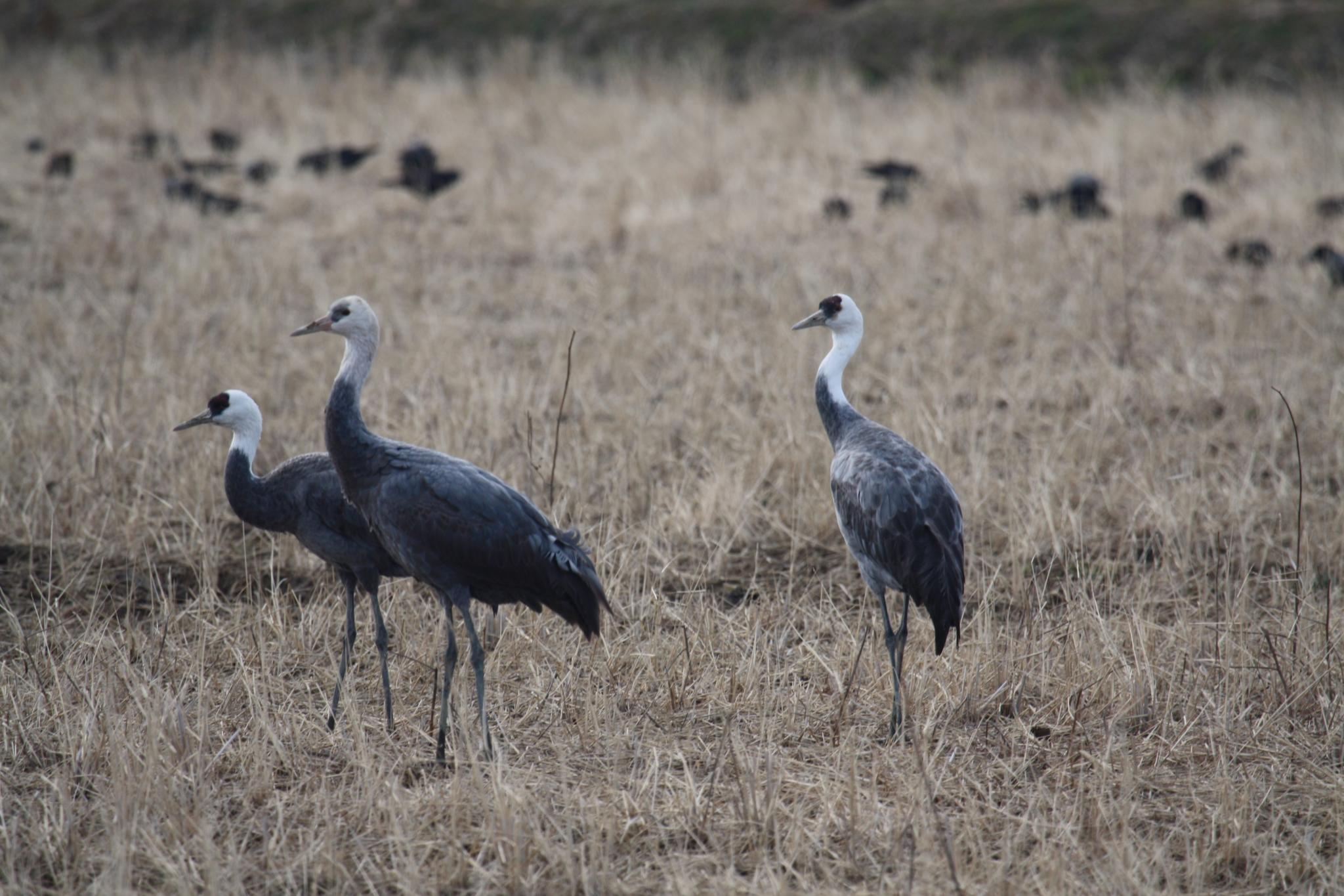 Three Hooded Cranes wintering in rice paddies in Kyushu, Japan.